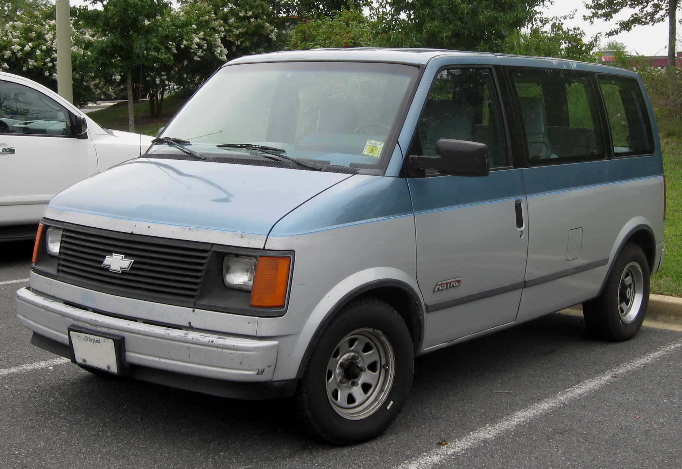 1985-1989 Chevrolet Astro photographed in Accokeek, Maryland, USA.